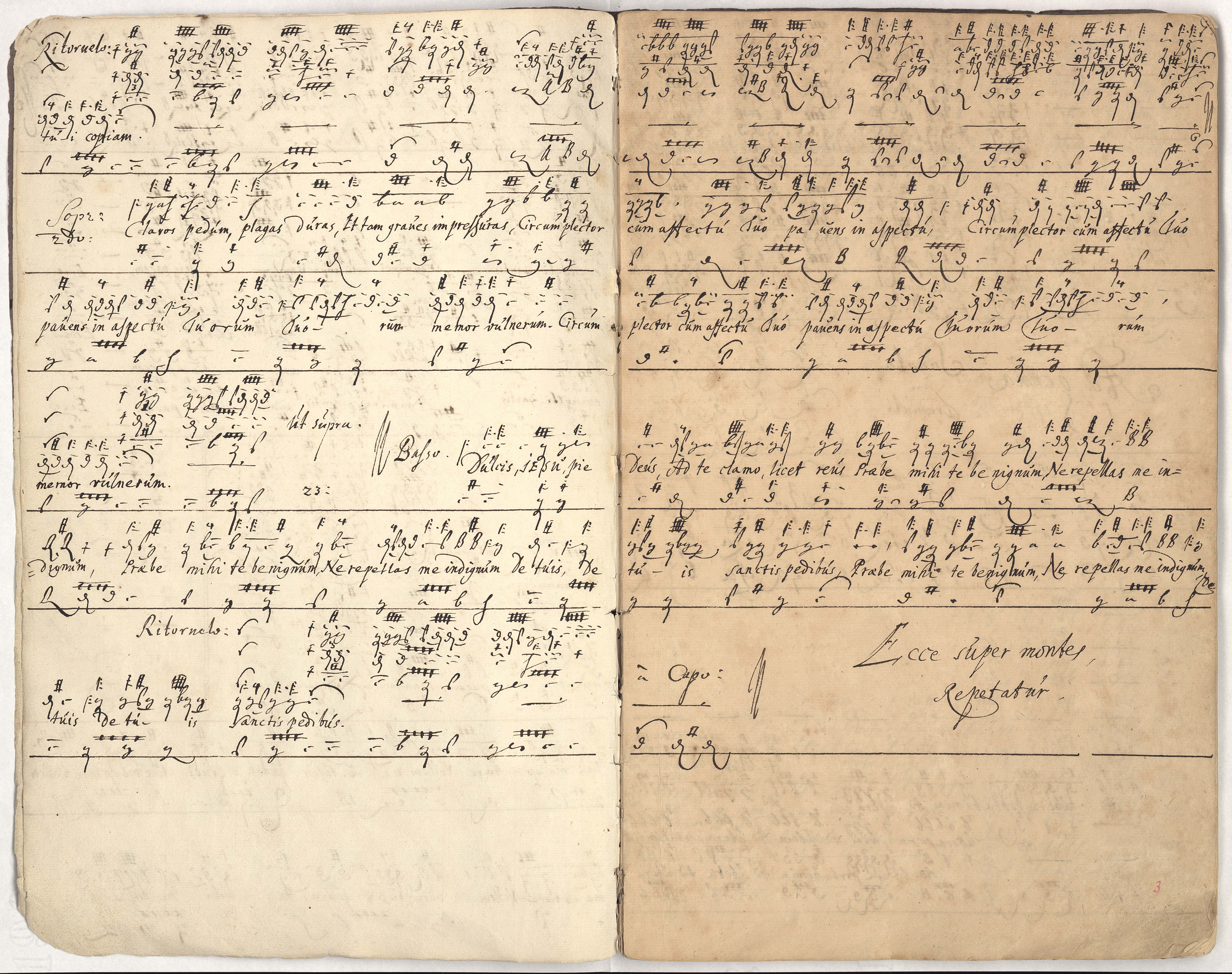 Second page of original manuscript of Ad Pedes, the first cantata from Membra Jesu Nostri